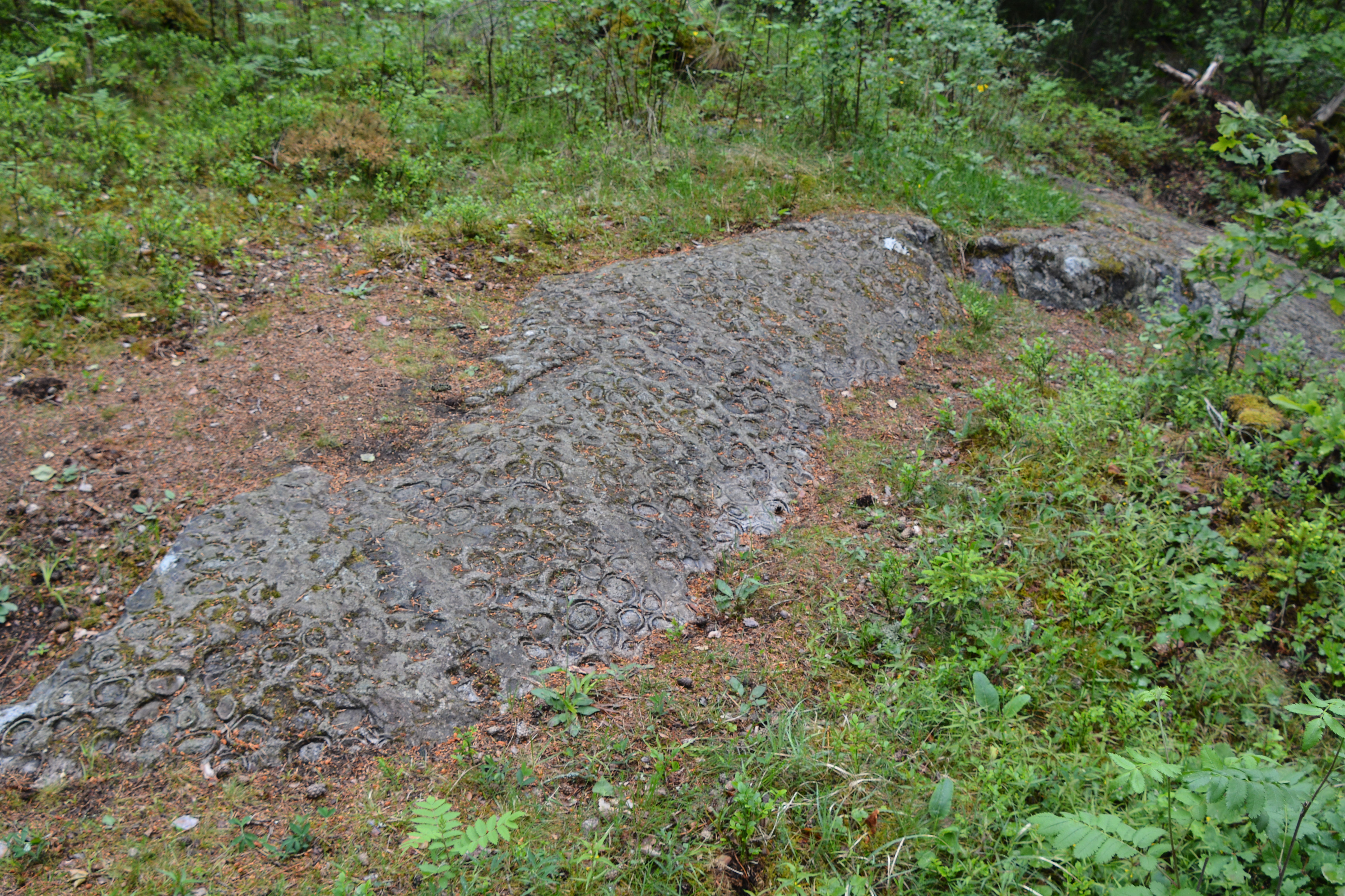 Klotgranit i Slättemossa